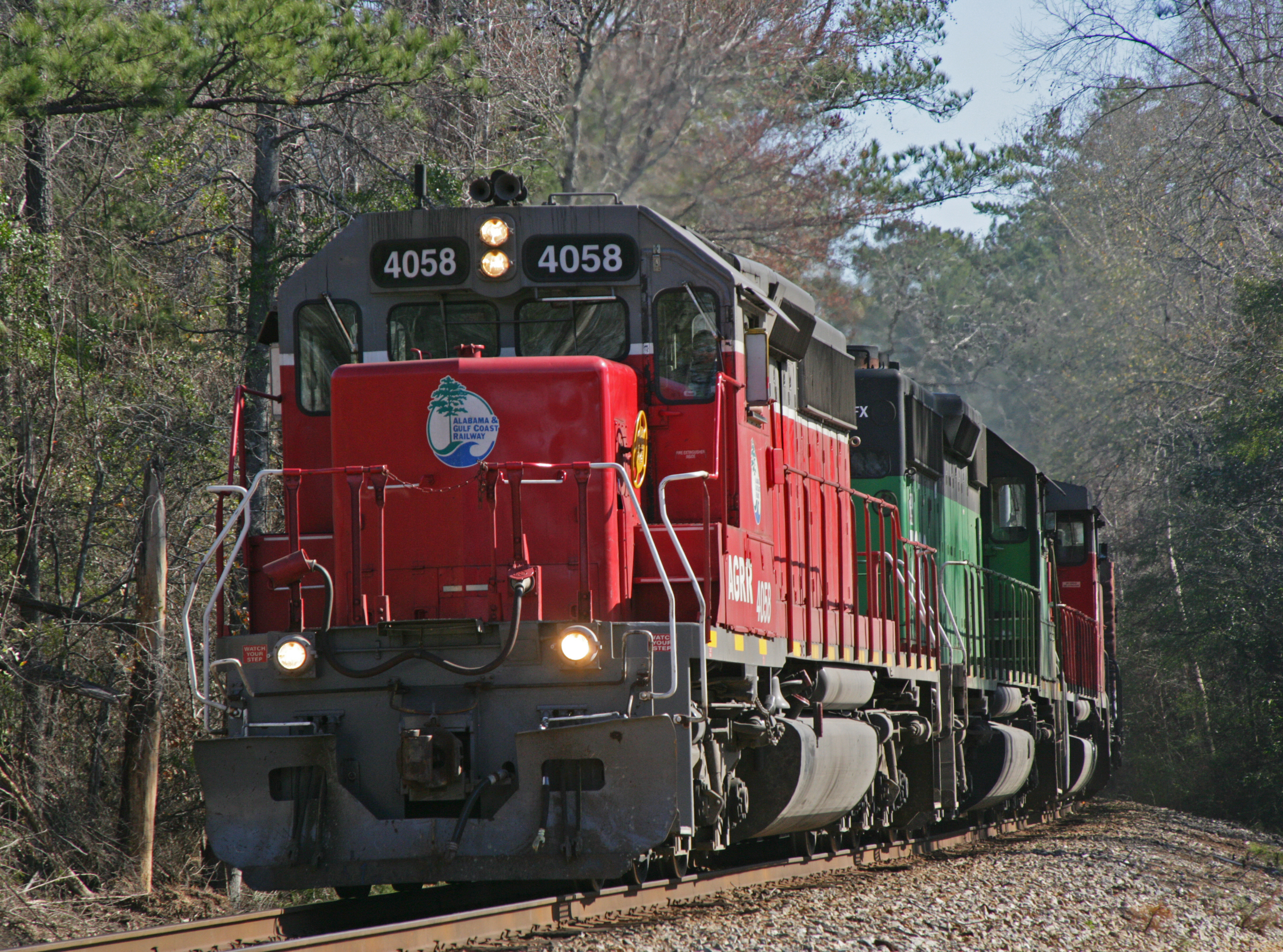 Train of the Alabama and Gulf Coast Railway Diesel #4058AGRR 4058 1E